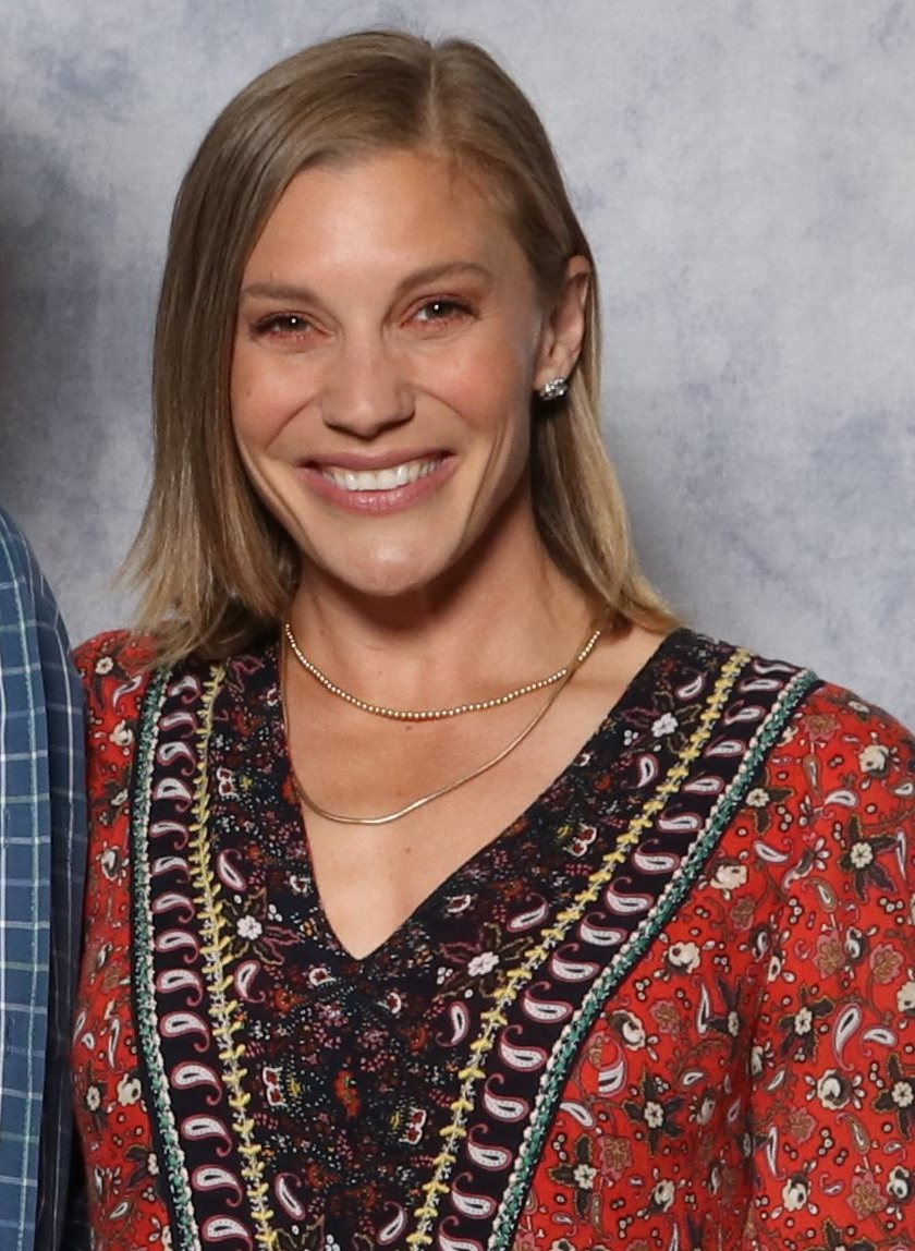 Katee Sackhoff in 2019